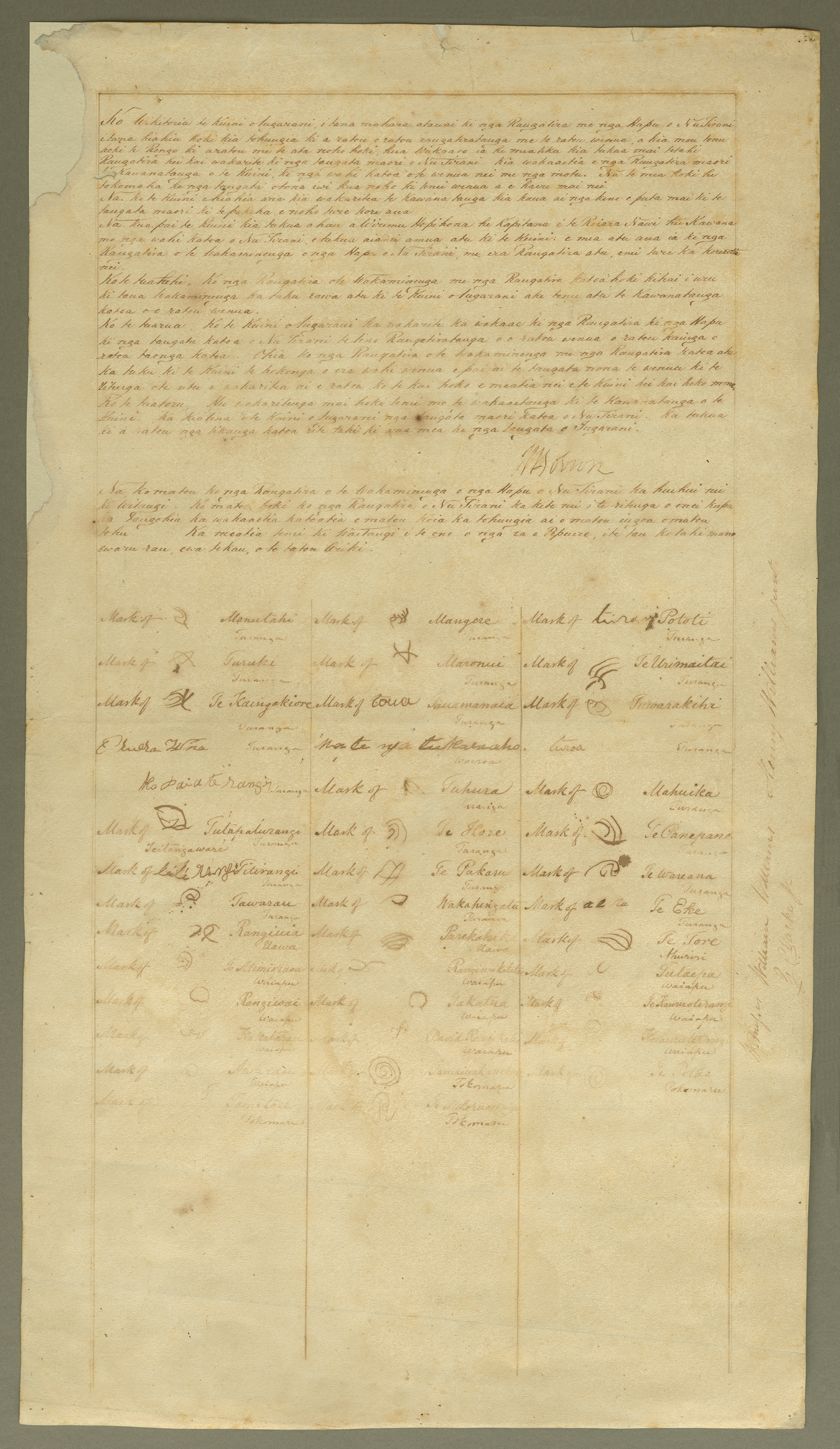 Te Tiriti ki Te Tairāwhiti – The East Coast sheet of the Treaty of Waitangi.